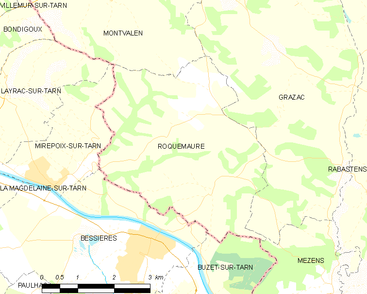 Map of French municipality Roquemaure